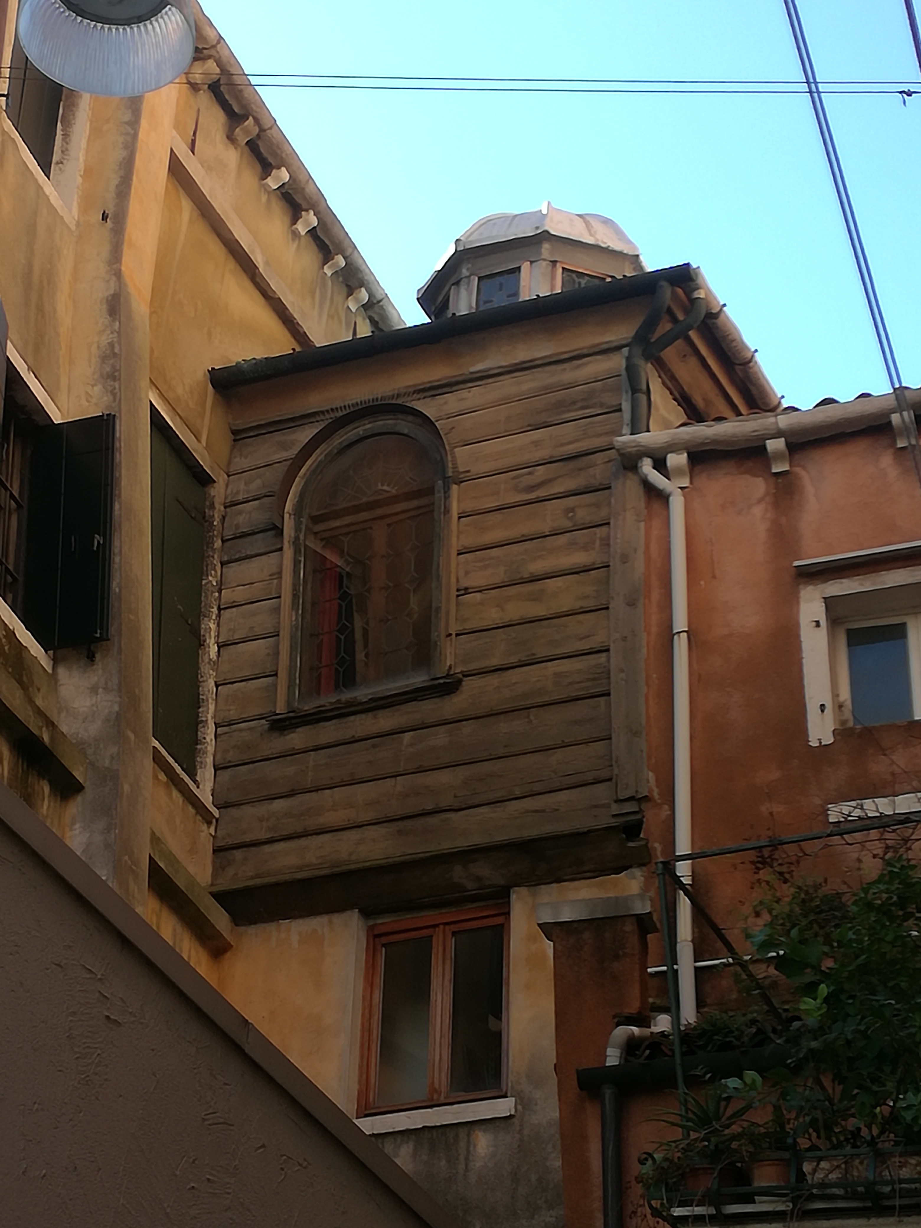 Exterior view of the Canton Synagogue, showing the dome-shaped skylight.